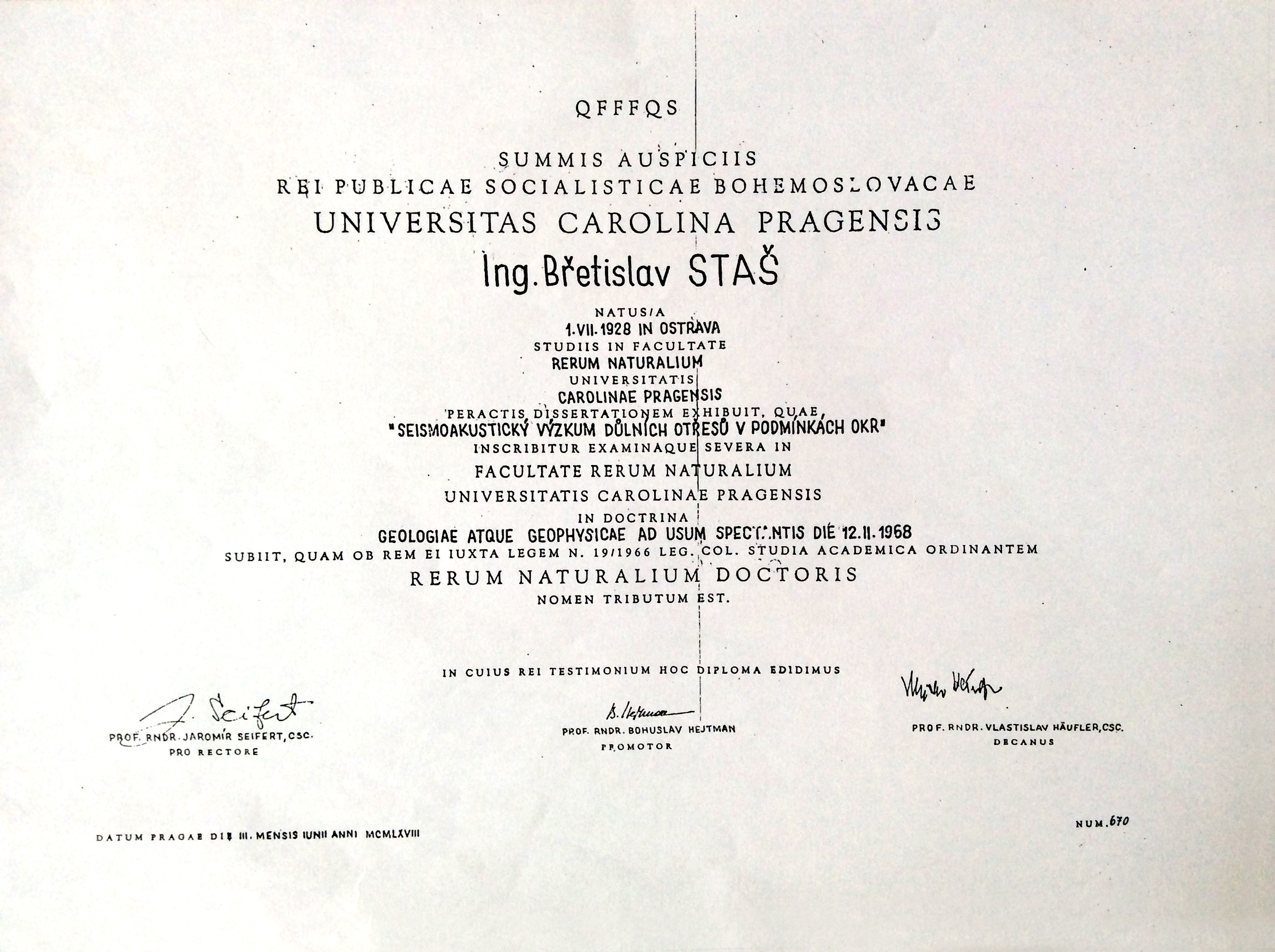 Břetislav Staš - Charles University diploma